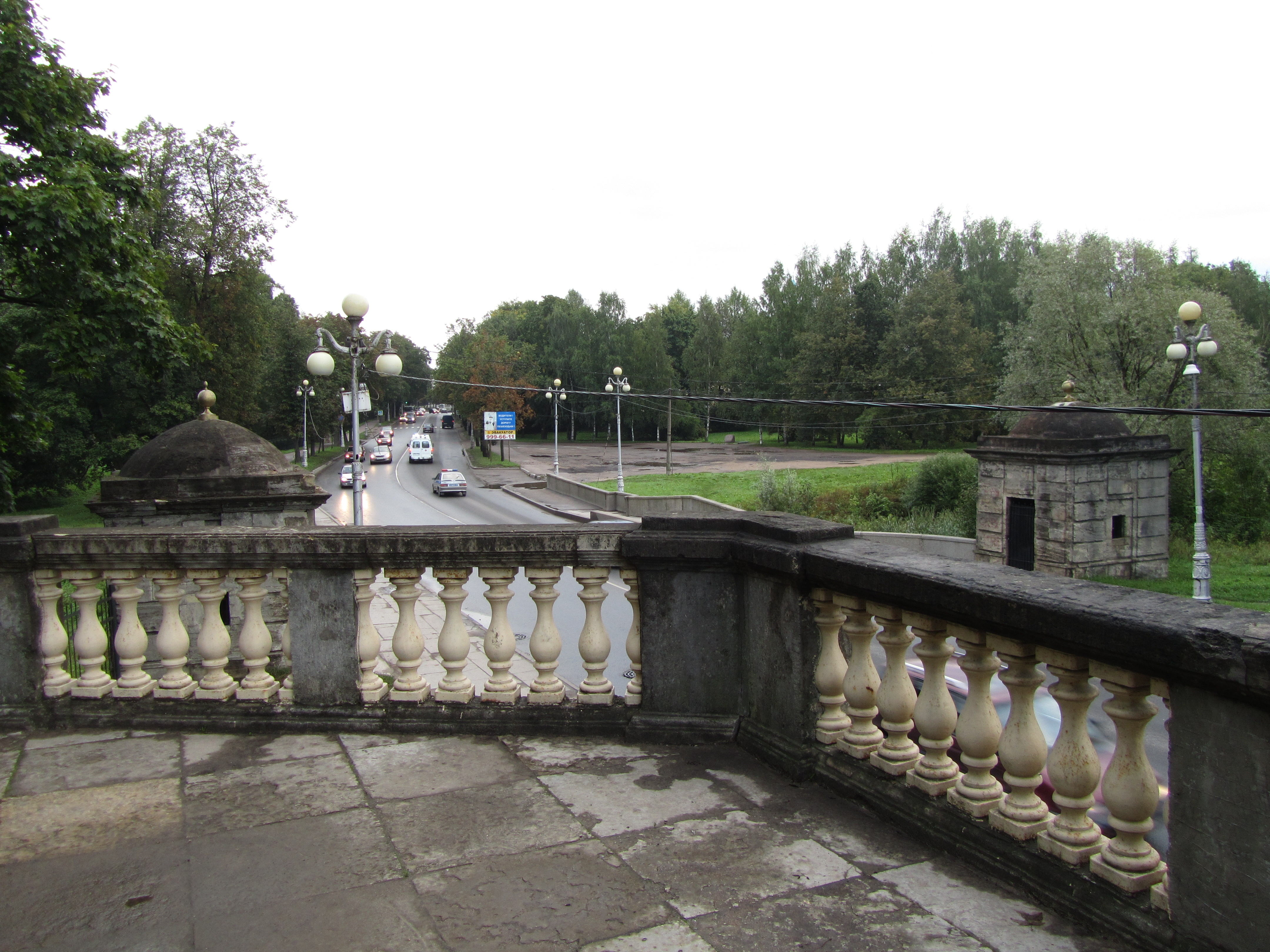 View on the avenue from the terrace, Gatchina, Russia